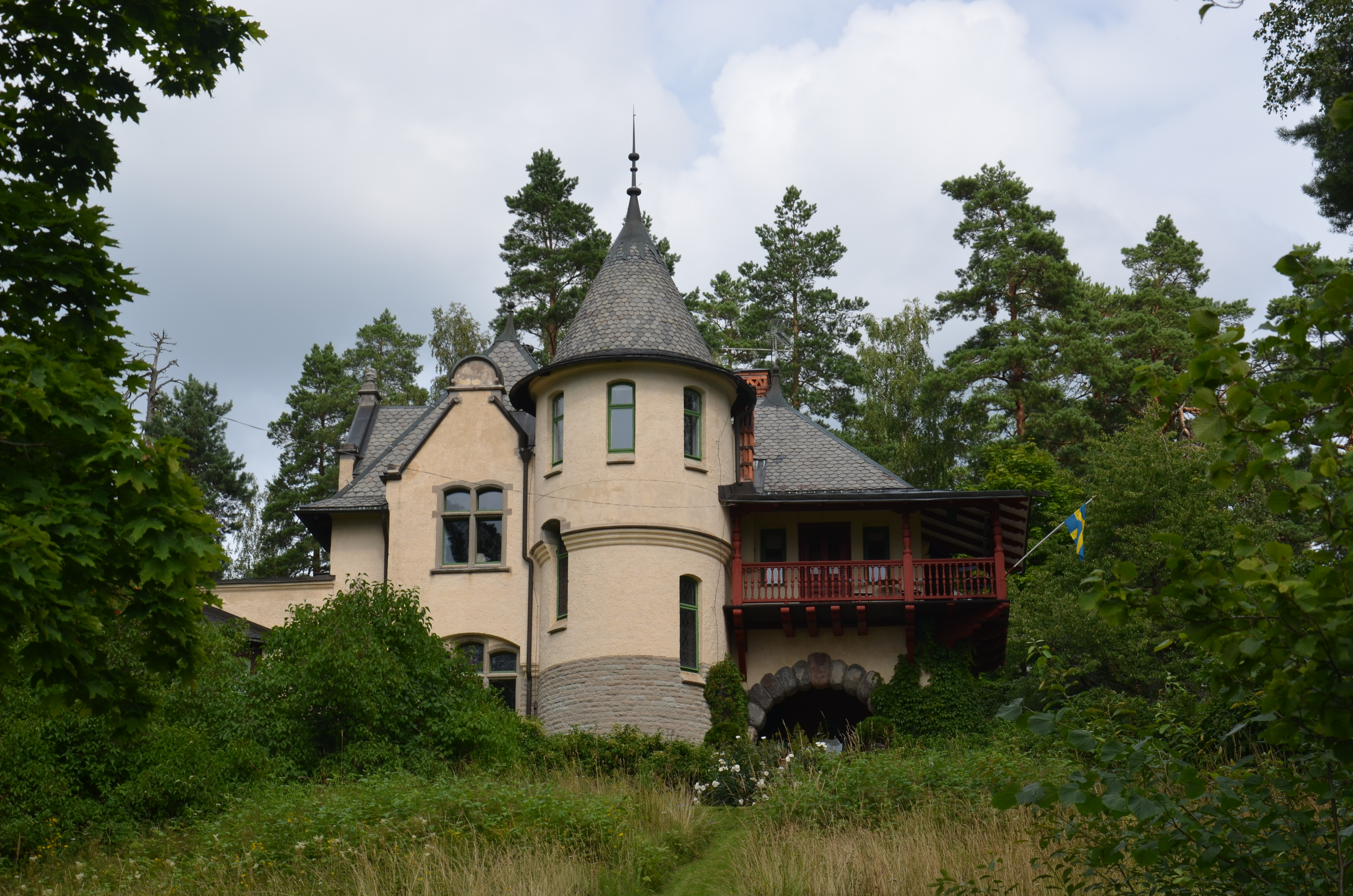 Villa Hvilan in Ängelsberg, Sweden, drafted by Isak Gutsaf Clason